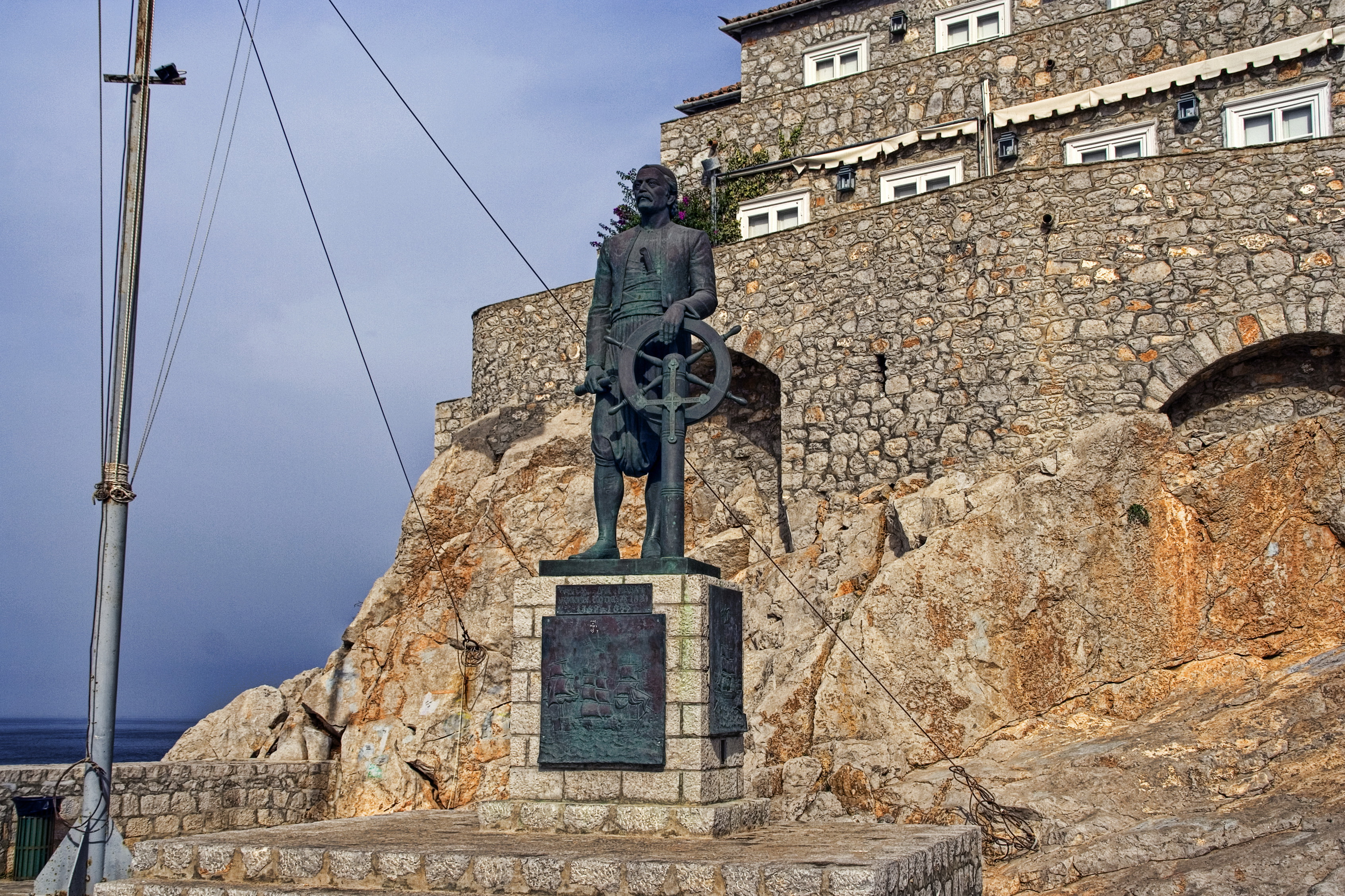 Statue of Andreas Vokos Miaoulis at Hydra island, Greece.